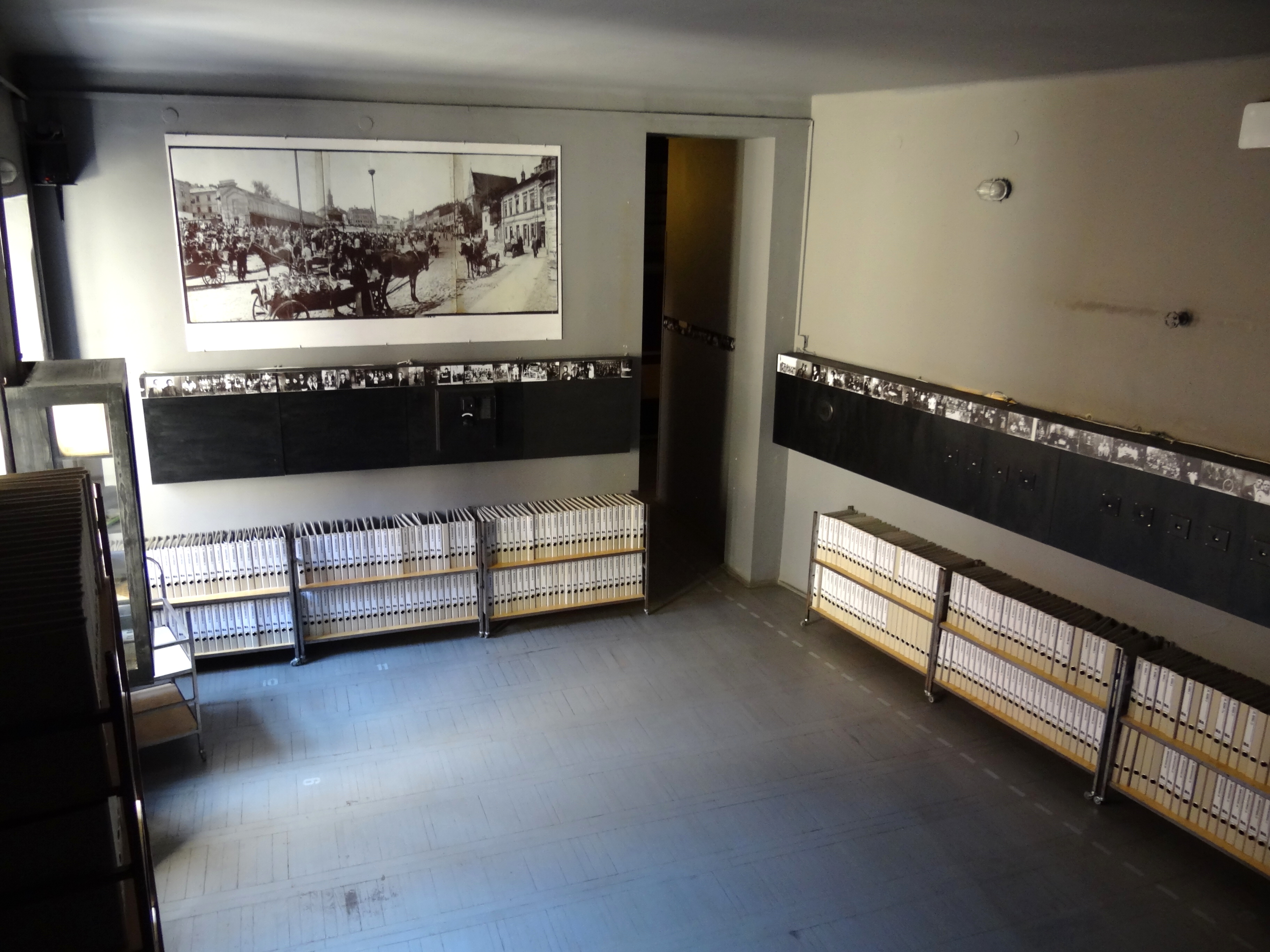 Room with Archives - Grodzka Gate-Theatre NN - Lublin - Poland